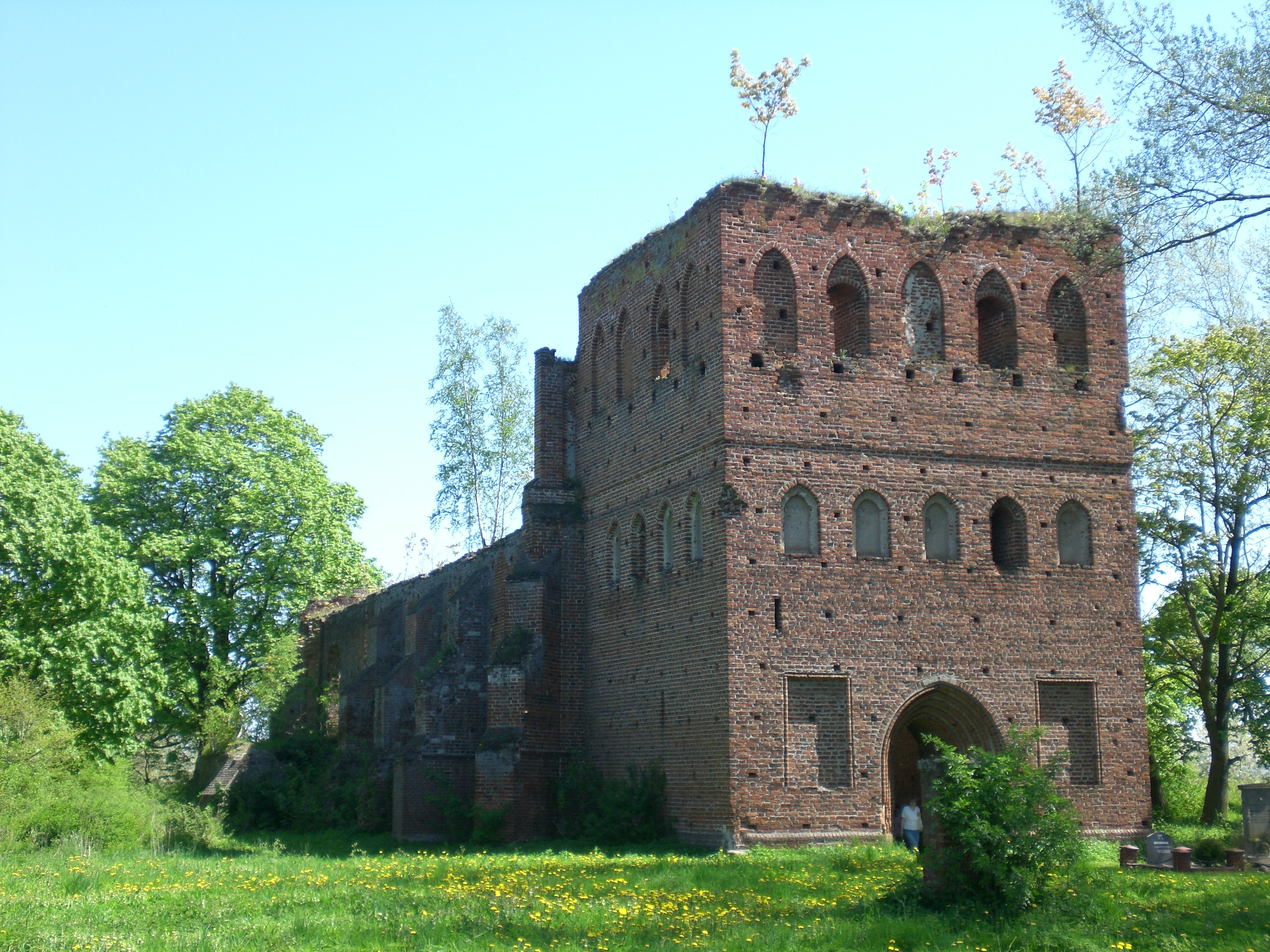 Church ruins in Steblewo, Poland